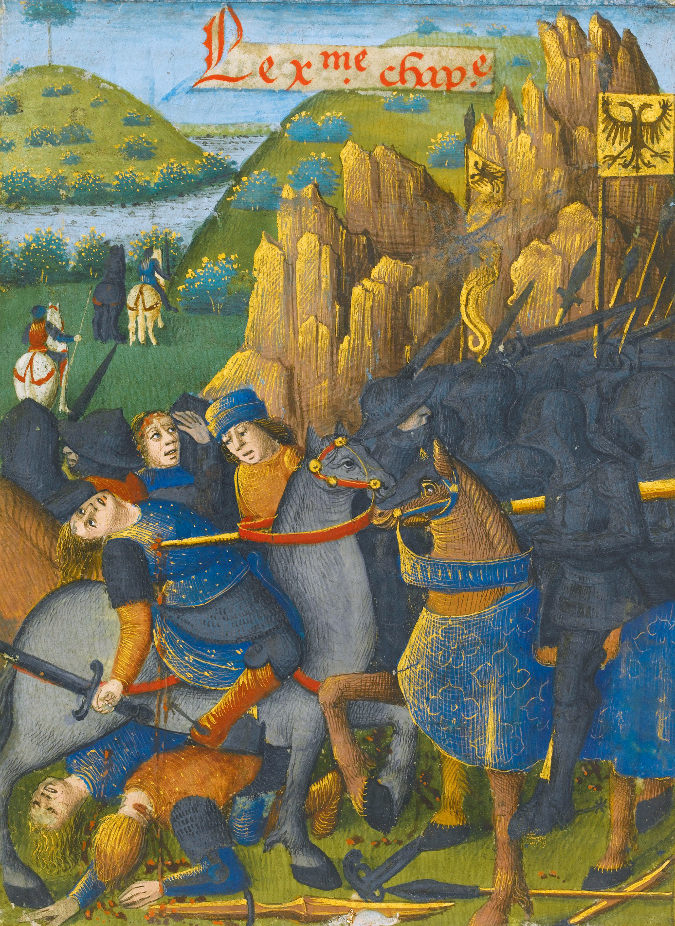 The Death of the Roman General Postumius at the Hands of the Boii, miniature from a manuscript of the Romuléon (Les Faits des Romains), in French translation by Jean Miélot (eastern France (Langres), c.1480-85)*vellum*13,1 x 9,7 cm